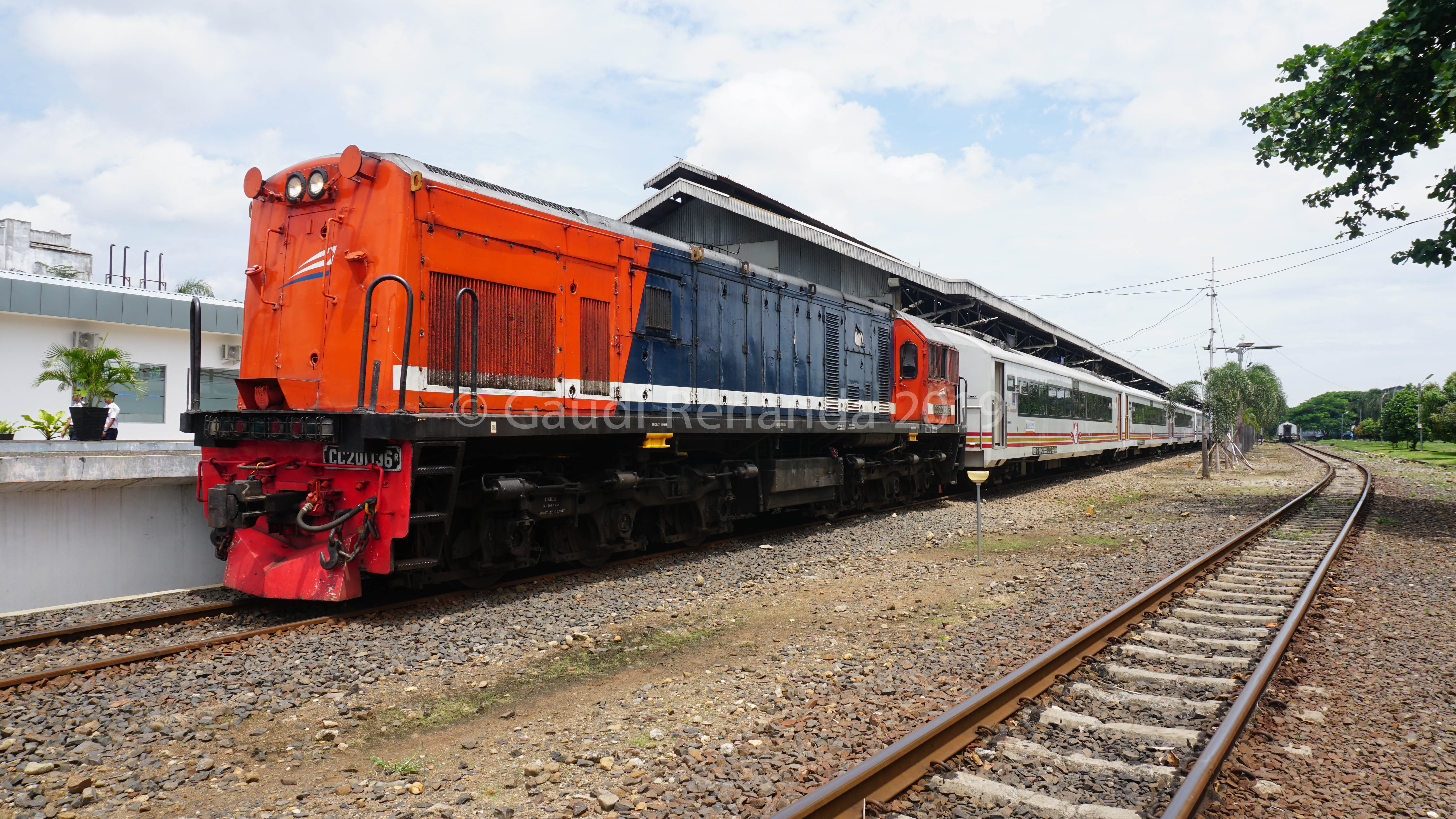 CC 201 83 55 with KA Kuala Stabas Premium arrived at Tanjung Karang Railway Station